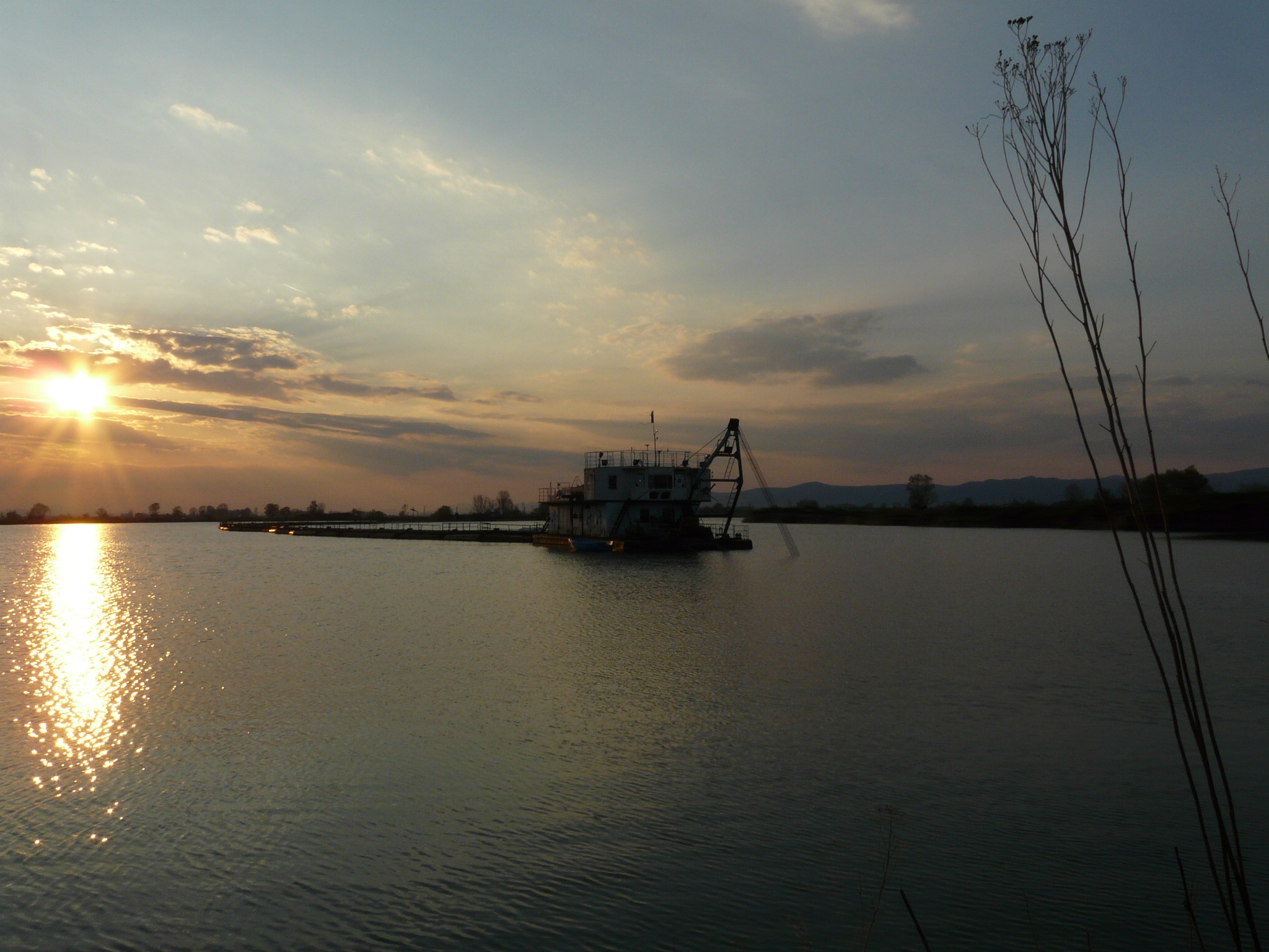 Largest lake, Negovan, Bulgaria